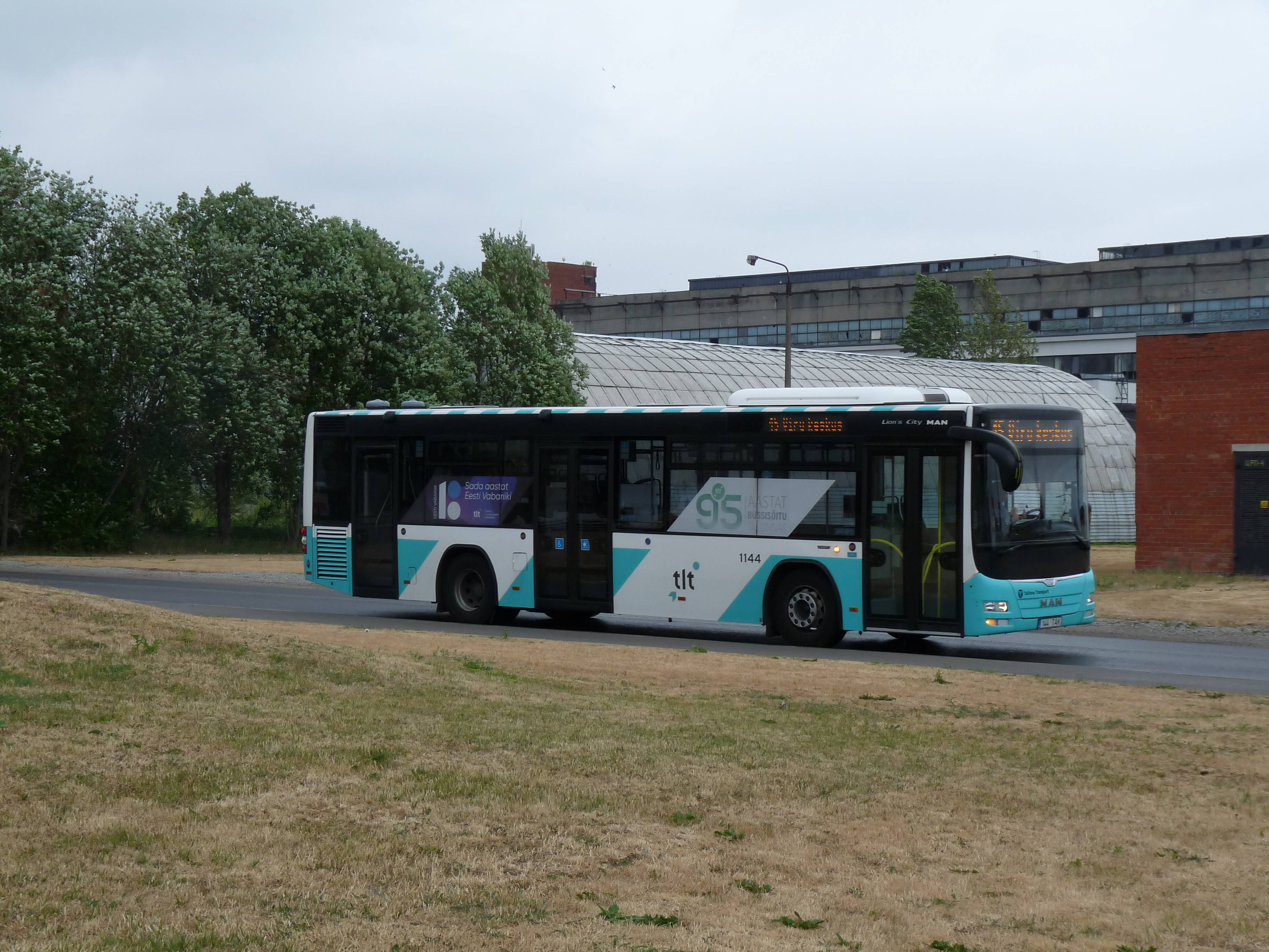 Public bus in Tallinn, Estonia